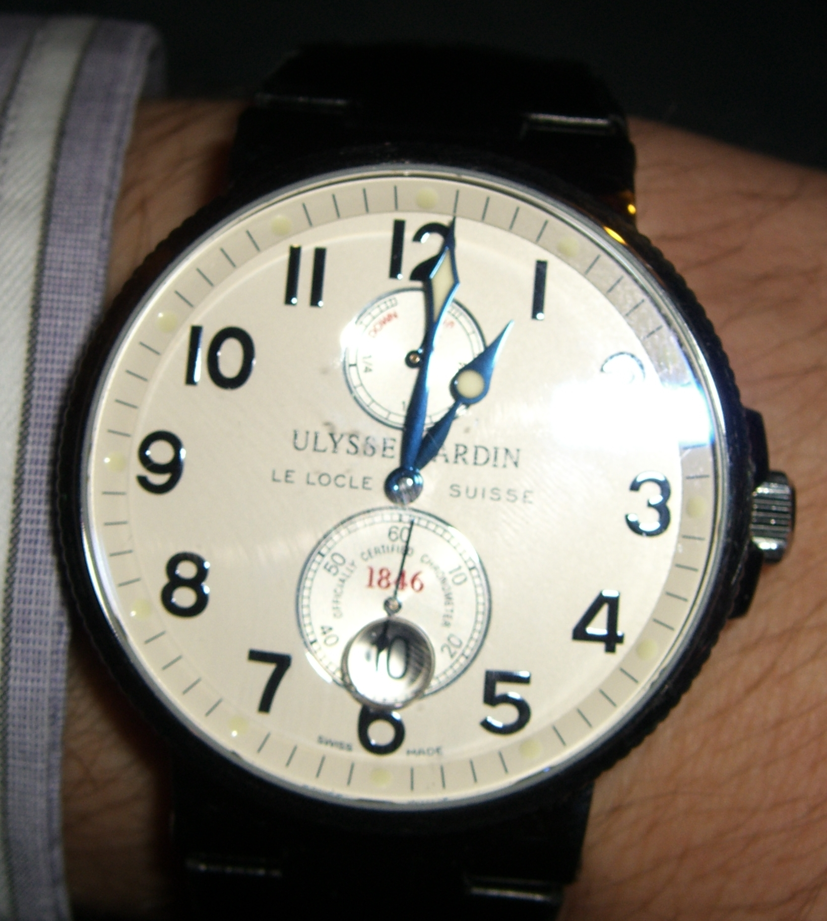 Ulysse Nardin, Marine Chrono 1846 made the photo myself